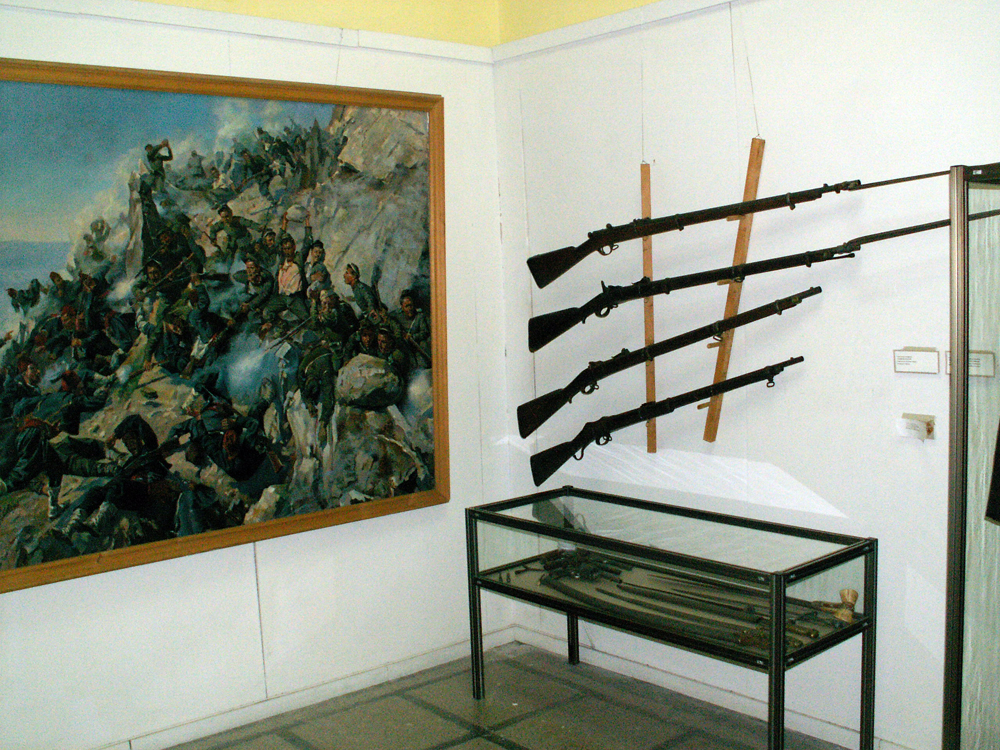 Shipka Memorial Exposition, Bulgaria